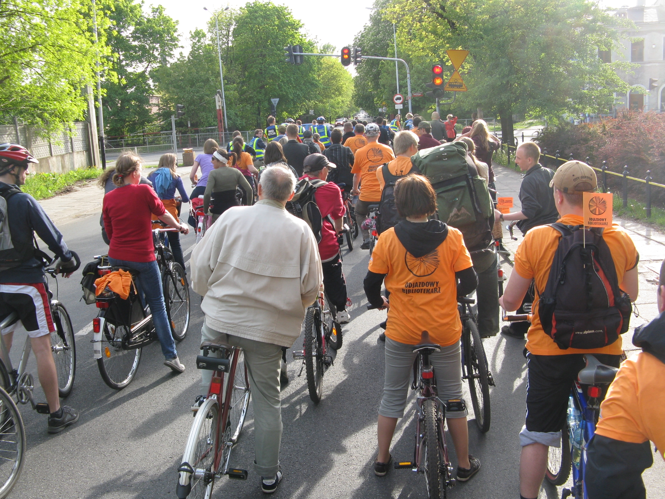 "Riding Librarian" - an event for librarians and books lovers in Łódź 2011